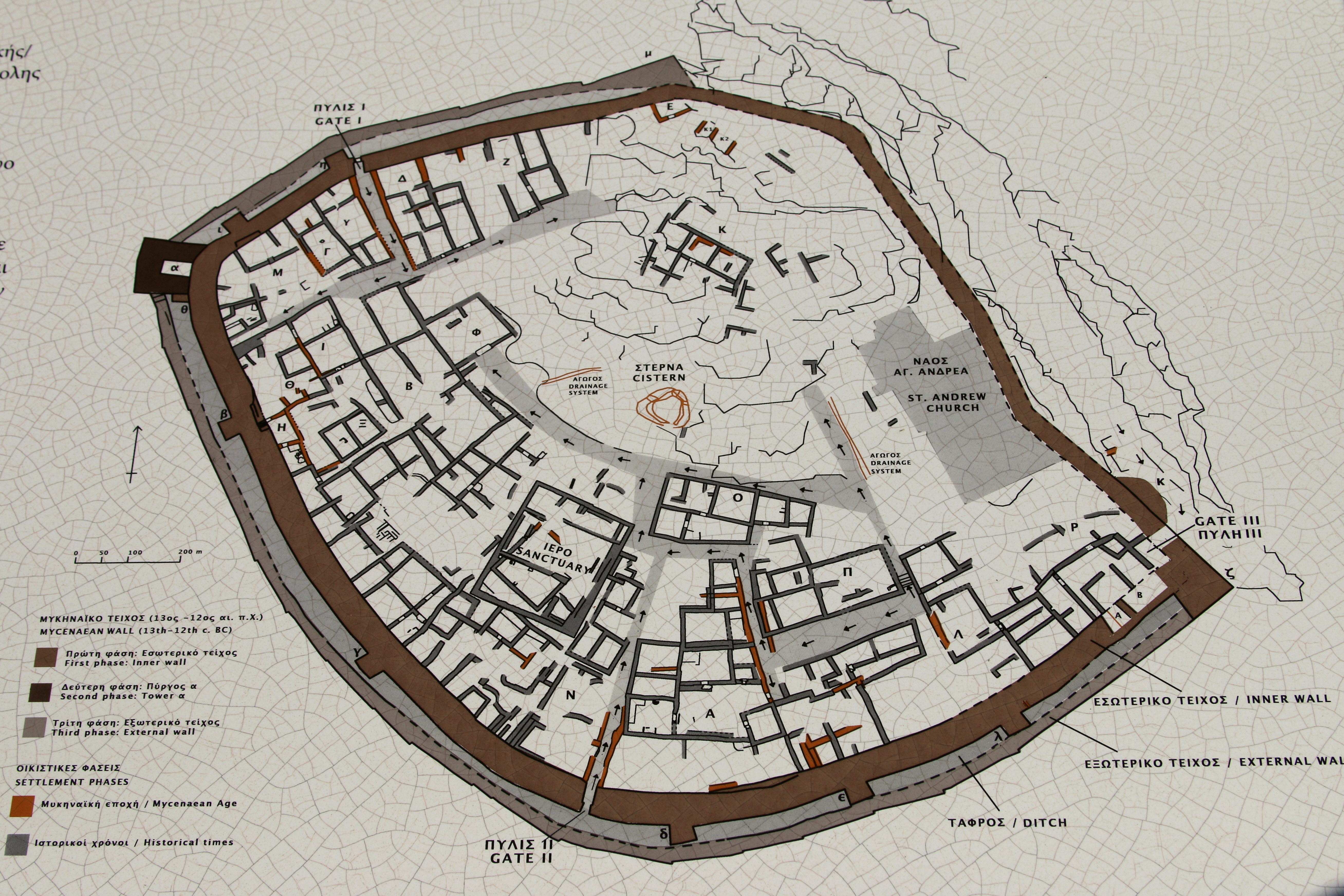 Map of the Archaeological site at Ag. Andreas on Sifnos.